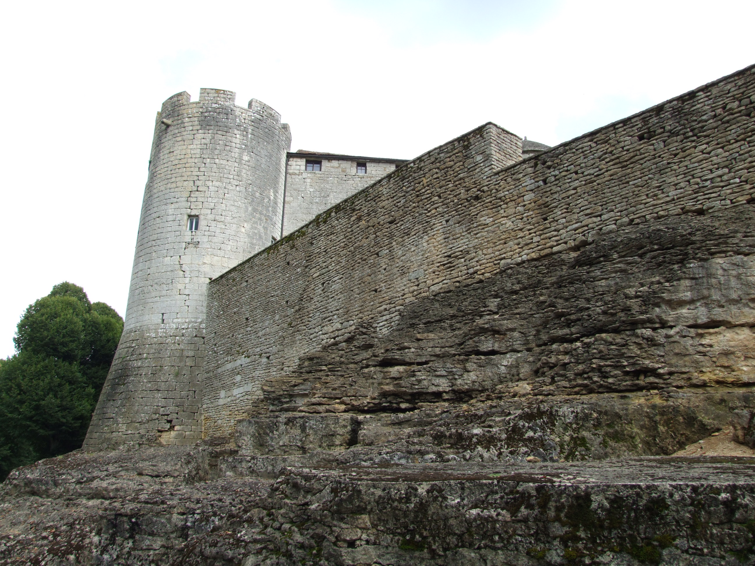 Mont-Saint-Jean castle, Burgundy, FRANCE